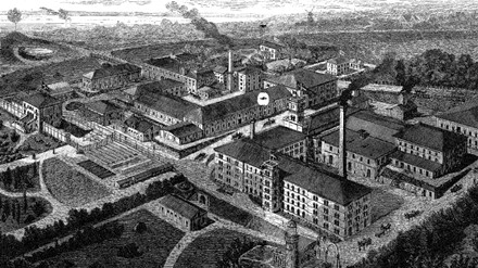 Drawing of Gammel Carlsberg (Old Carlsberg) in Copenhagen, Denmark